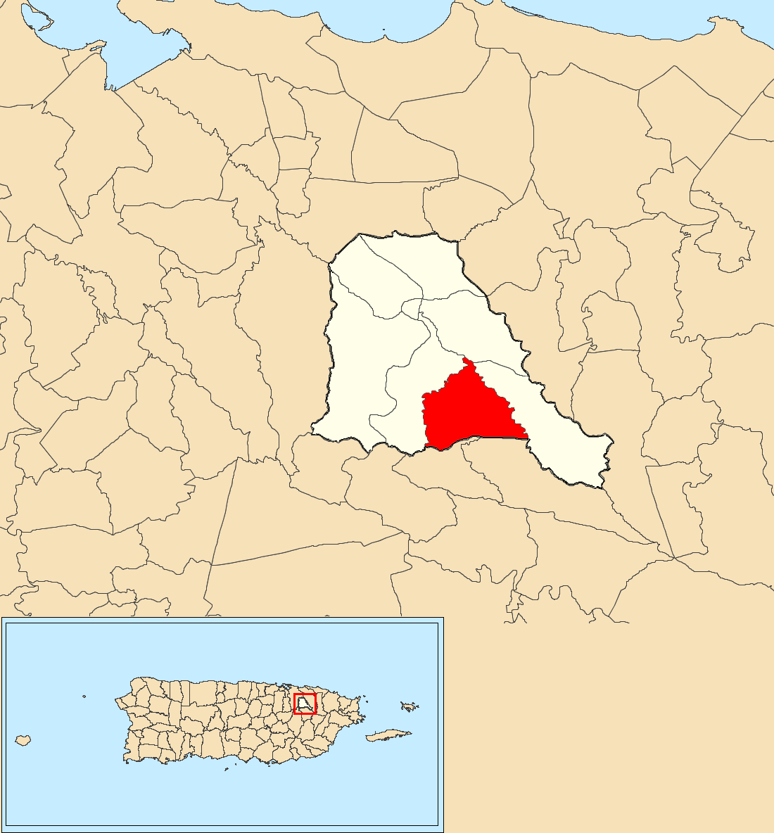 Quebrada Negrito, Trujillo Alto, Puerto Rico locator map